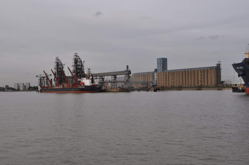 Tilbury Grain Port and Silos, near to Grays, Thurrock, Great Britain. A ship is on port loading or unloading grain for import or export. The silos have a 100,000 ton capacity.